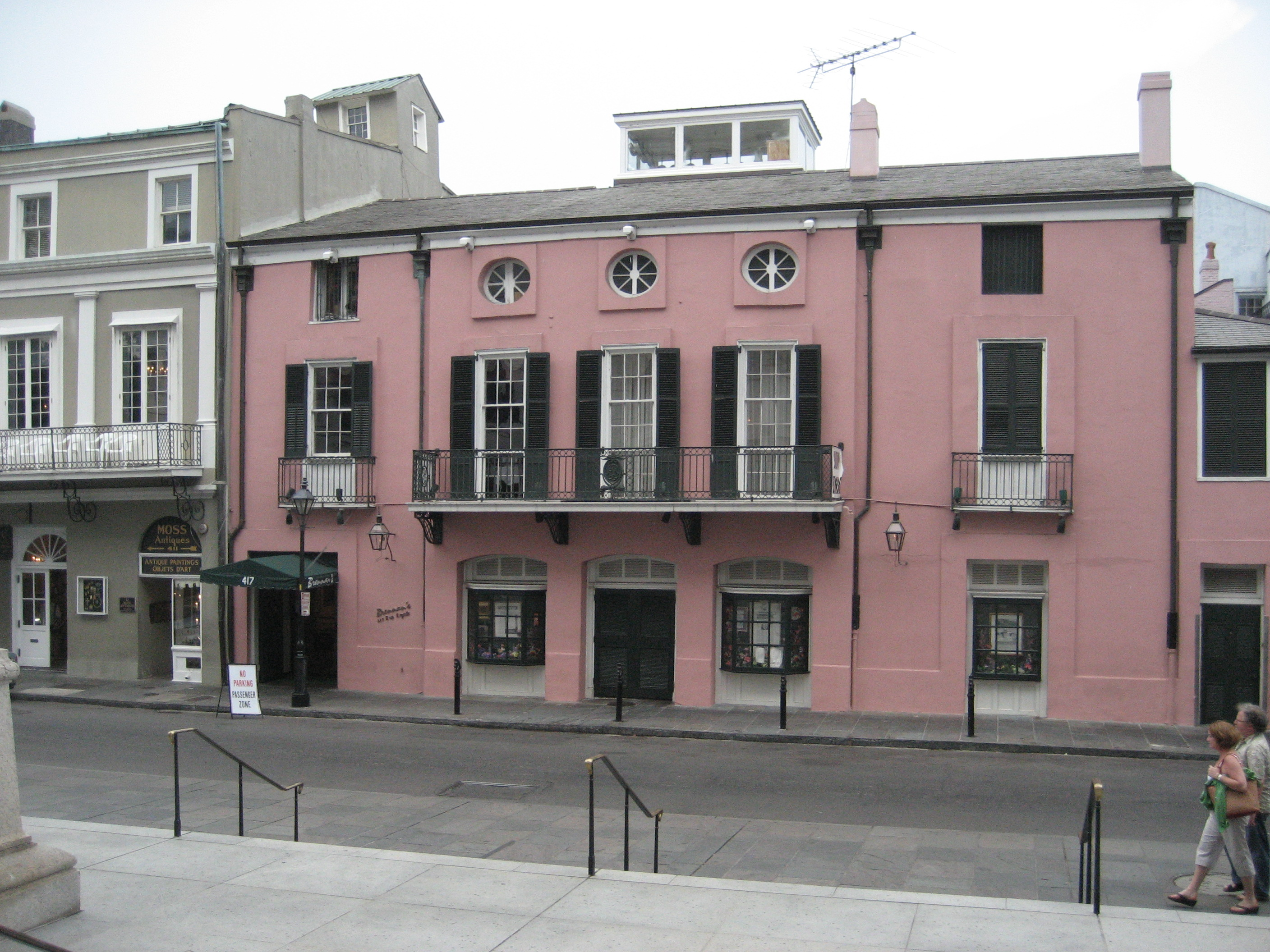 New Orleans: View of Brennan's Restaurant on Royal Street.